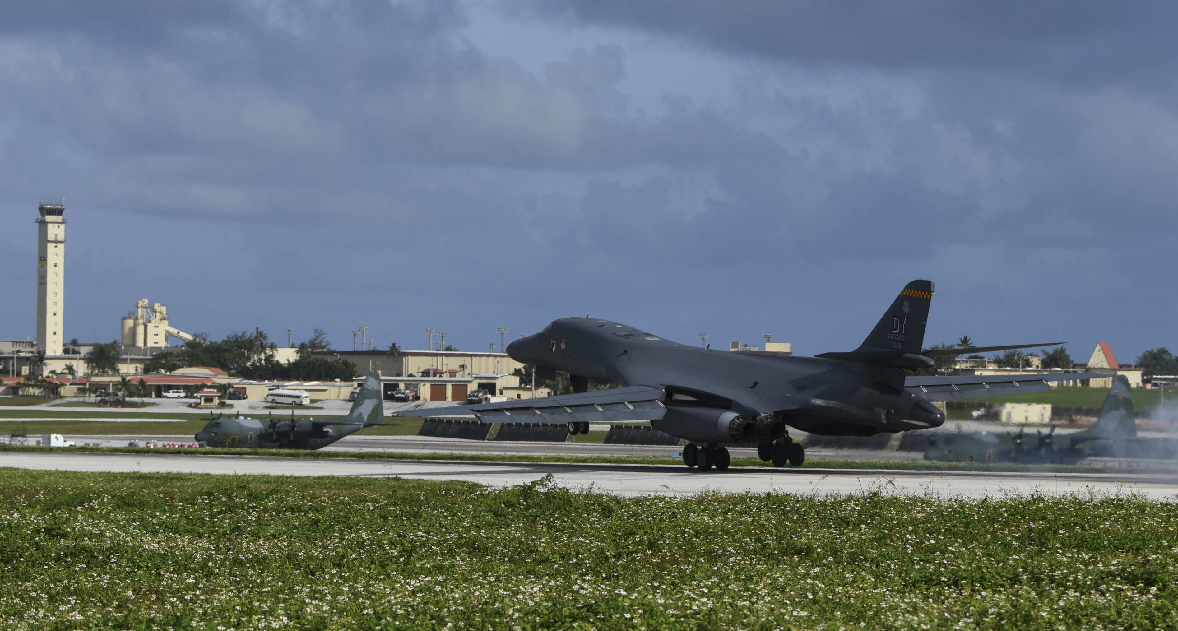 A U.S. Air Force B-1B Lancer assigned to the 9th Expeditionary Bomb Squadron, deployed from Dyess Air Force Base, Texas, lands Feb. 6, 2017, at Andersen AFB, Guam. The 9th EBS is taking over U.S. Pacific Command’s Continuous Bomber Presence operations from the 34th EBS, assigned to Ellsworth Air Force Base, S.D. The B-1B's blended wing/body configuration, variable-geometry wings and turbofan afterburning engines, combine to provide long range, maneuverability and high speed while enhancing survivability. The rotation of aircraft in support is specifically designed to demonstrate the U.S.’s commitment to the Indo-Asia-Pacific region and enhance routine transiting in international airspace throughout the Pacific. (U.S. Air Force photo by Tech. Sgt. Richard P. Ebensberger/Released) Unit: 36th Wing Public Affairs DVIDS Tags: Guam; USPACOM; Andersen Air Force Base; Ellsworth AFB; B-1B; Dyess AFB; Bone; CBP; Lancer; AFGSC; Continuous Bomber Presence